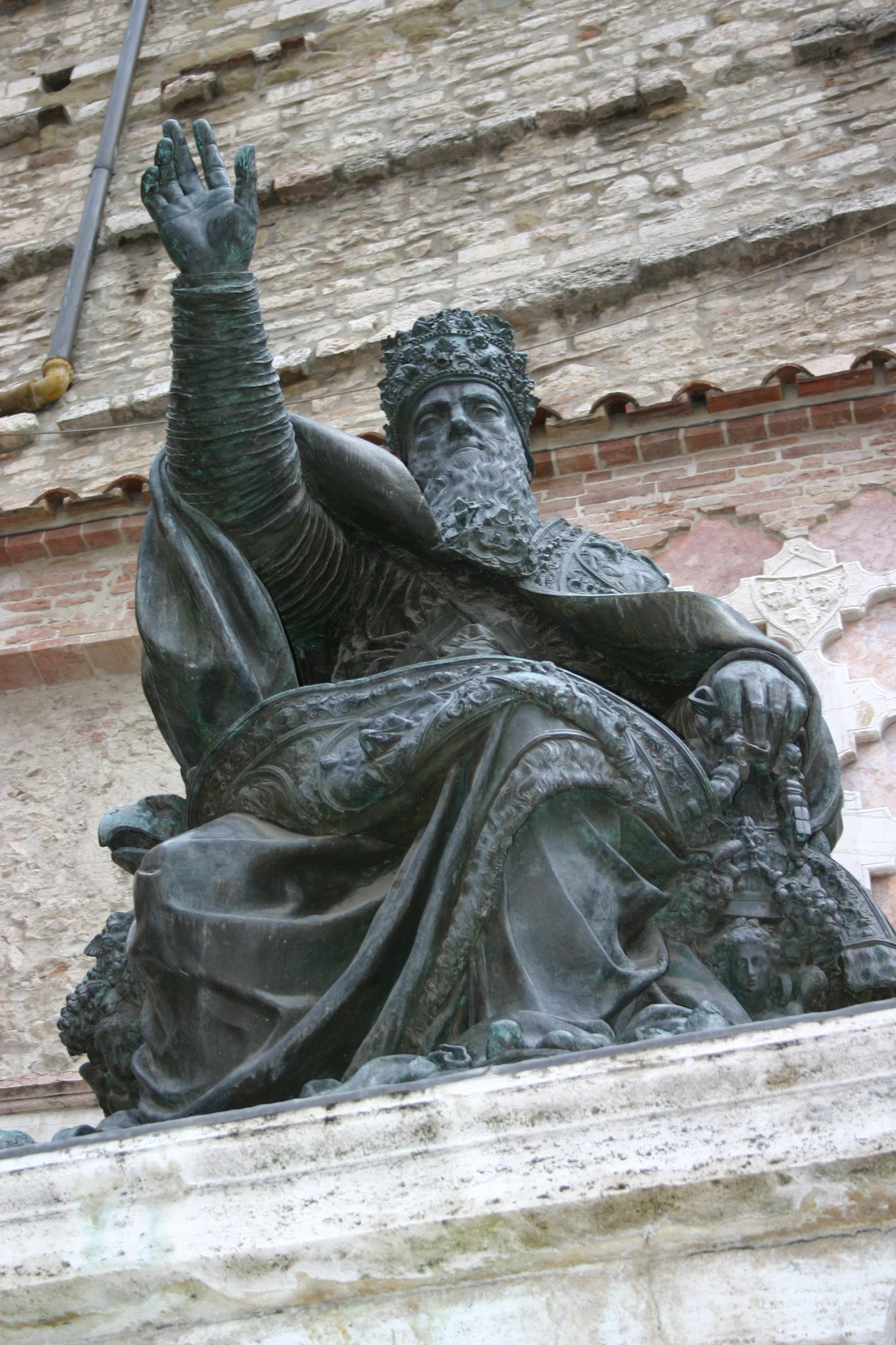 Perugia, Vincenzo Danti, Bronze statue of pope Julius III (1555). Picture by Giovanni Dall'Orto, August 7, 2006.